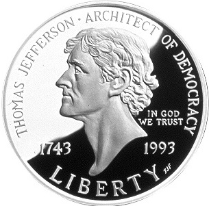 1994 Thomas Jefferson Two Hundred Fiftieth Anniversary Silver Dollar Obverse